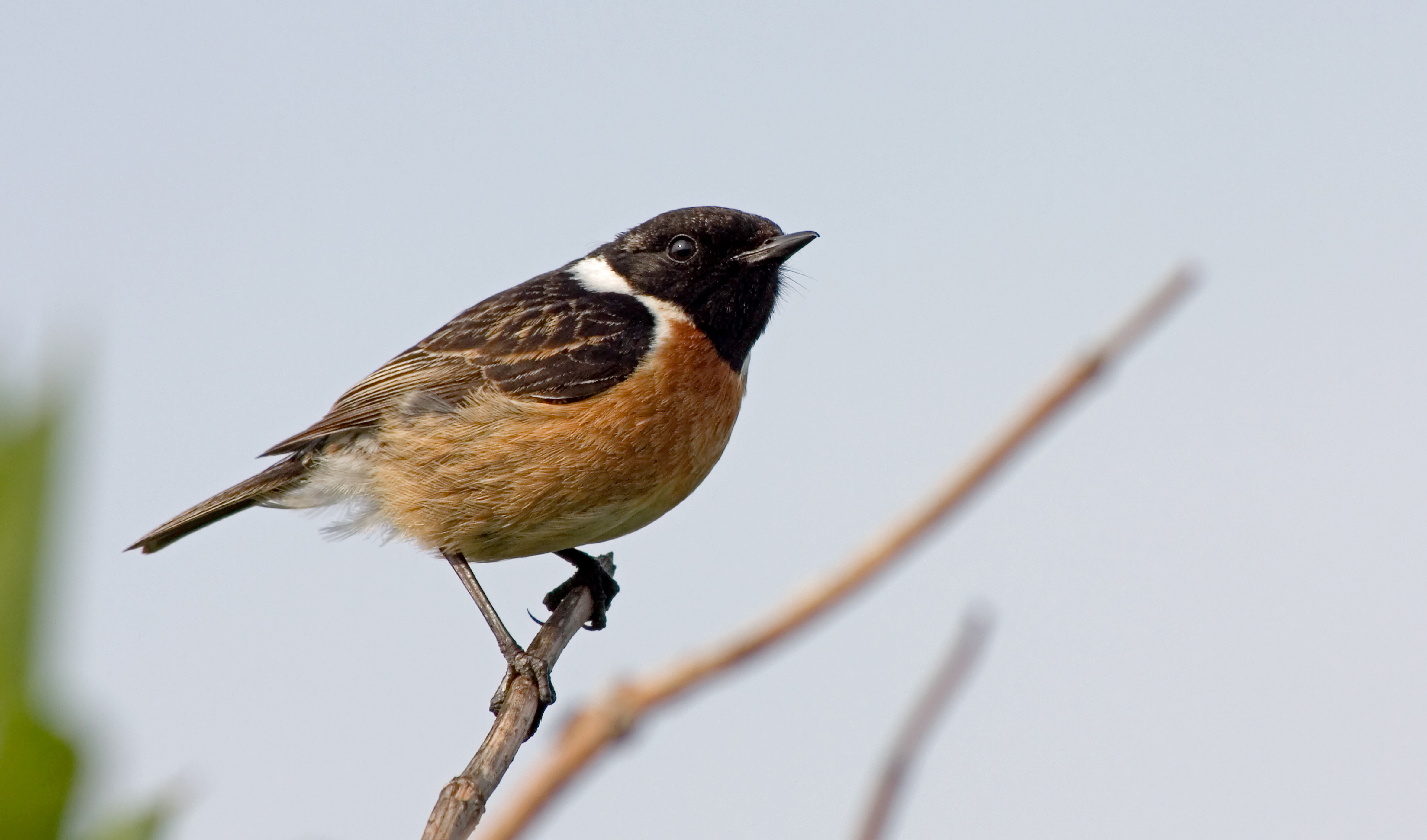 Male Stonechat